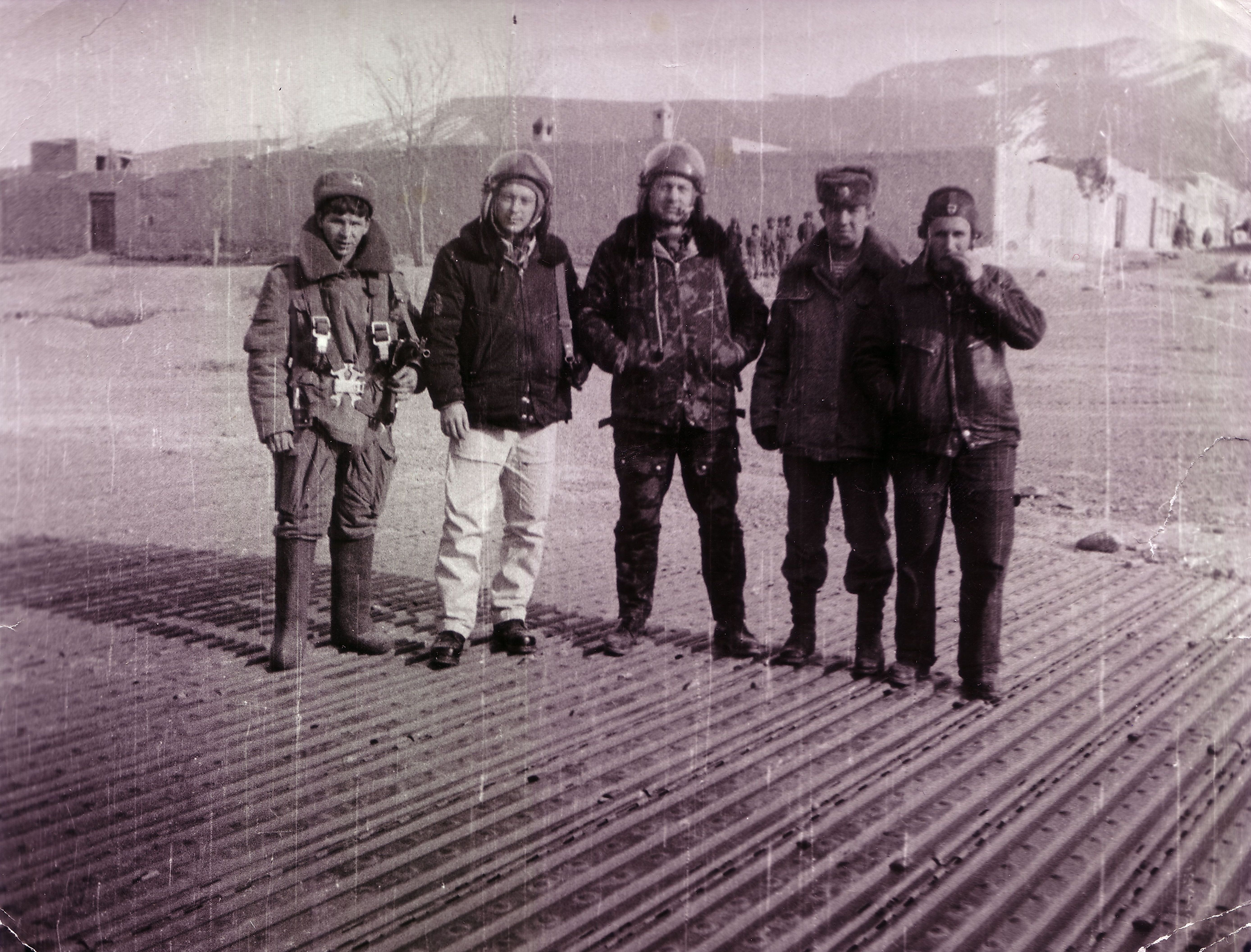 Soviet Army in Afgan, 1987. VVP Baraki-Baraki